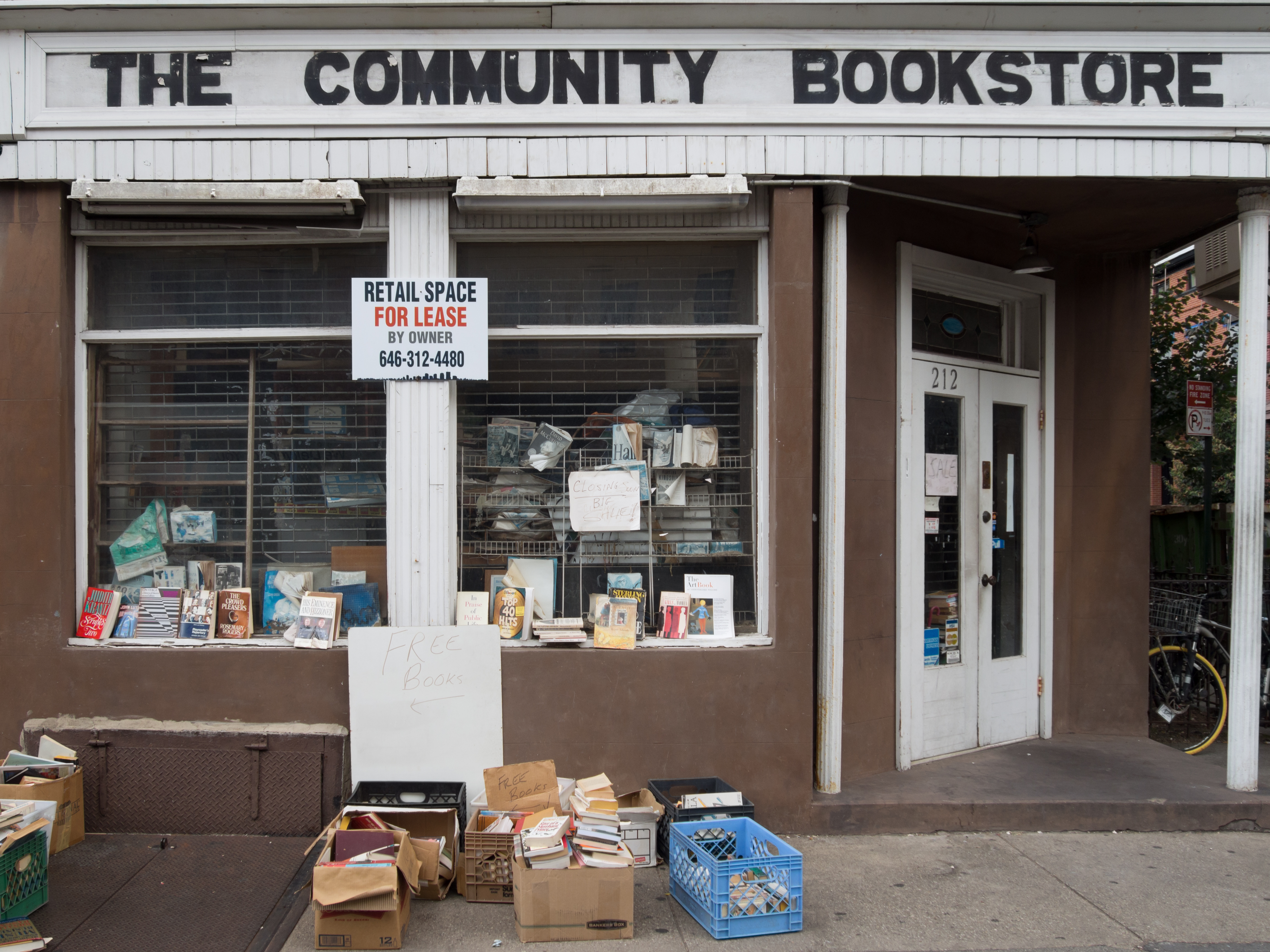 The Community Bookstore on Court Street in Cobble Hill, Brooklyn.